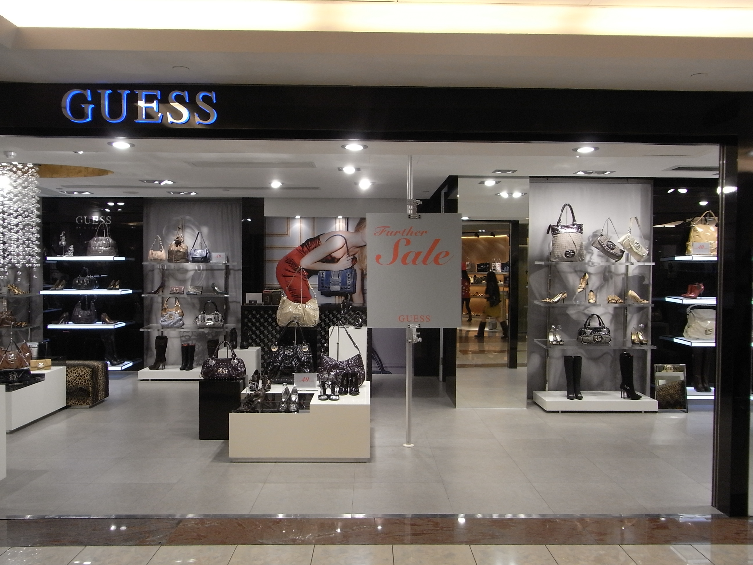 尖沙咀 新太陽廣場